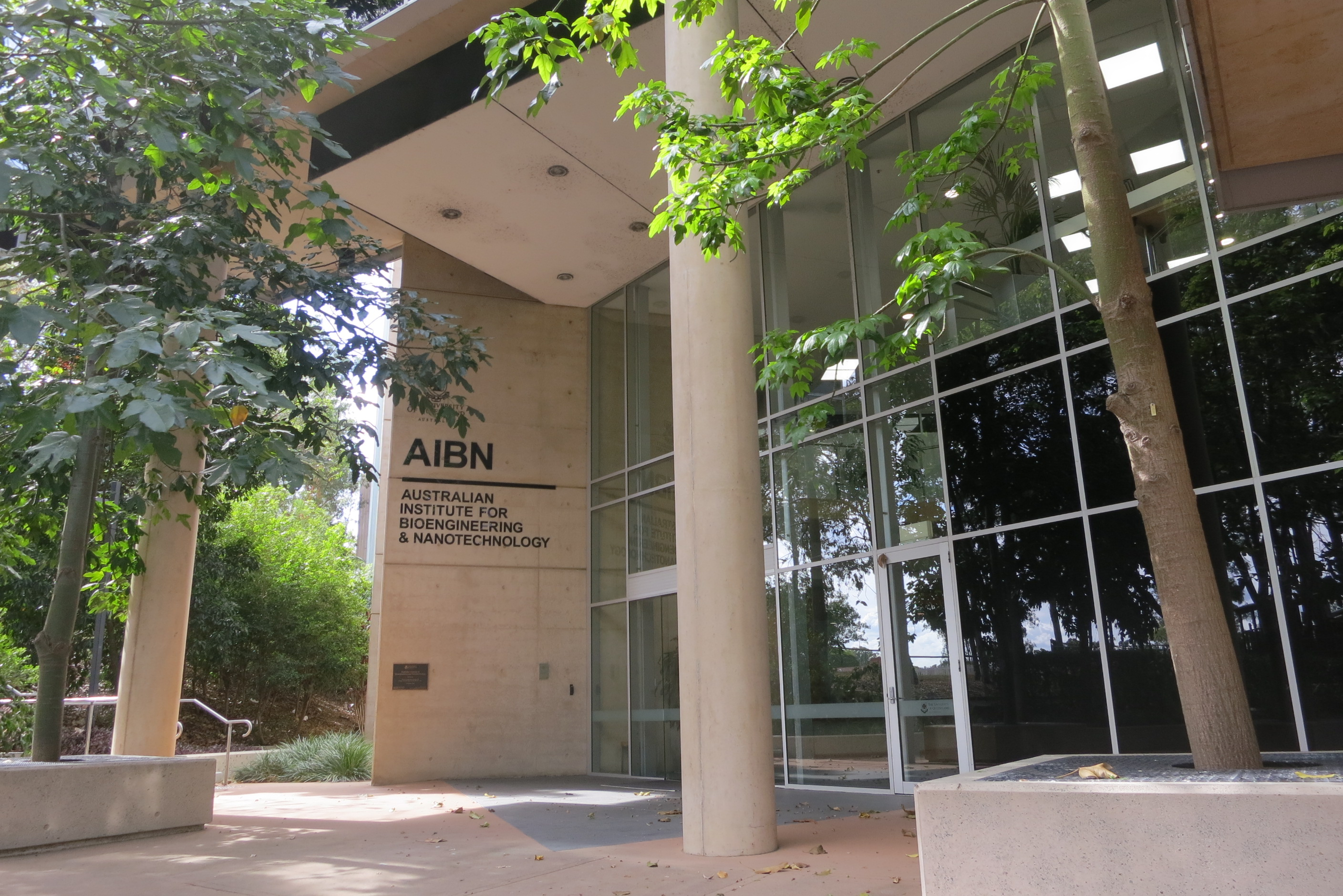 Front facade of the Australian Institute for Bioengineering and Nanotechnology (AIBN) in the University of Queensland, Australia